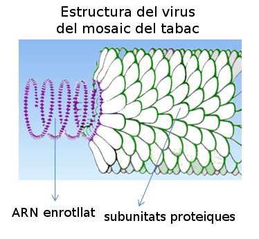 Diagram of the structure of tobacco mosaic virus